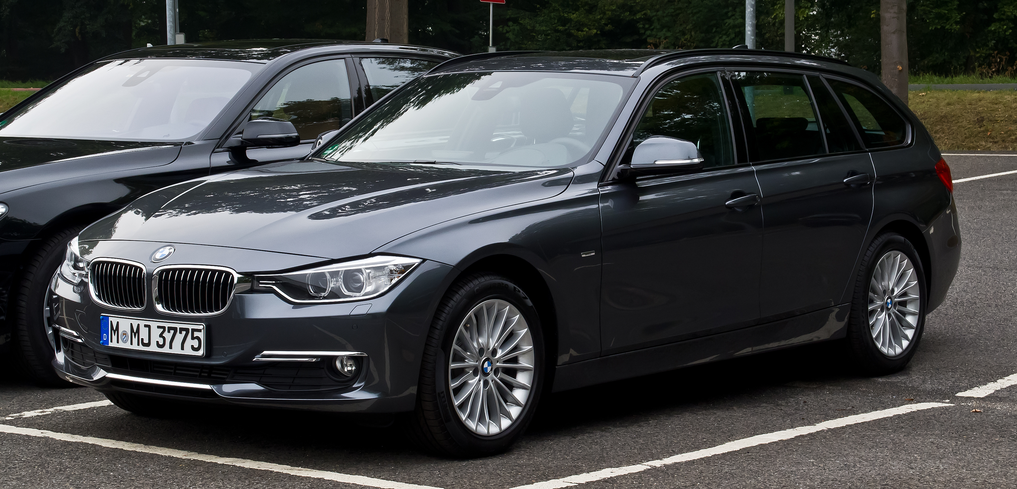 BMW 3er Touring Luxury Line (F31)